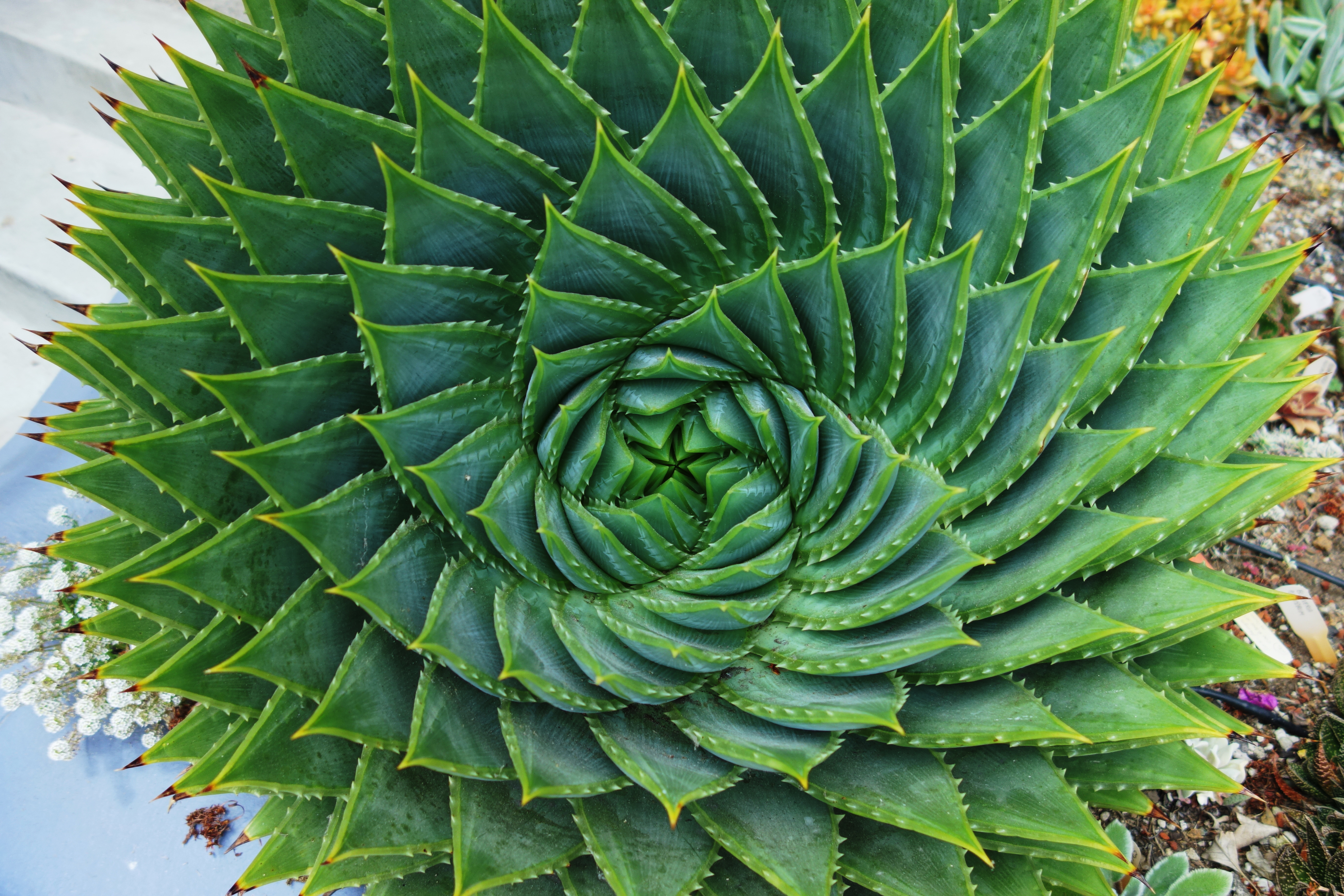 Aloe polyphylla (spiral aloe) in a garden in San Francisco.